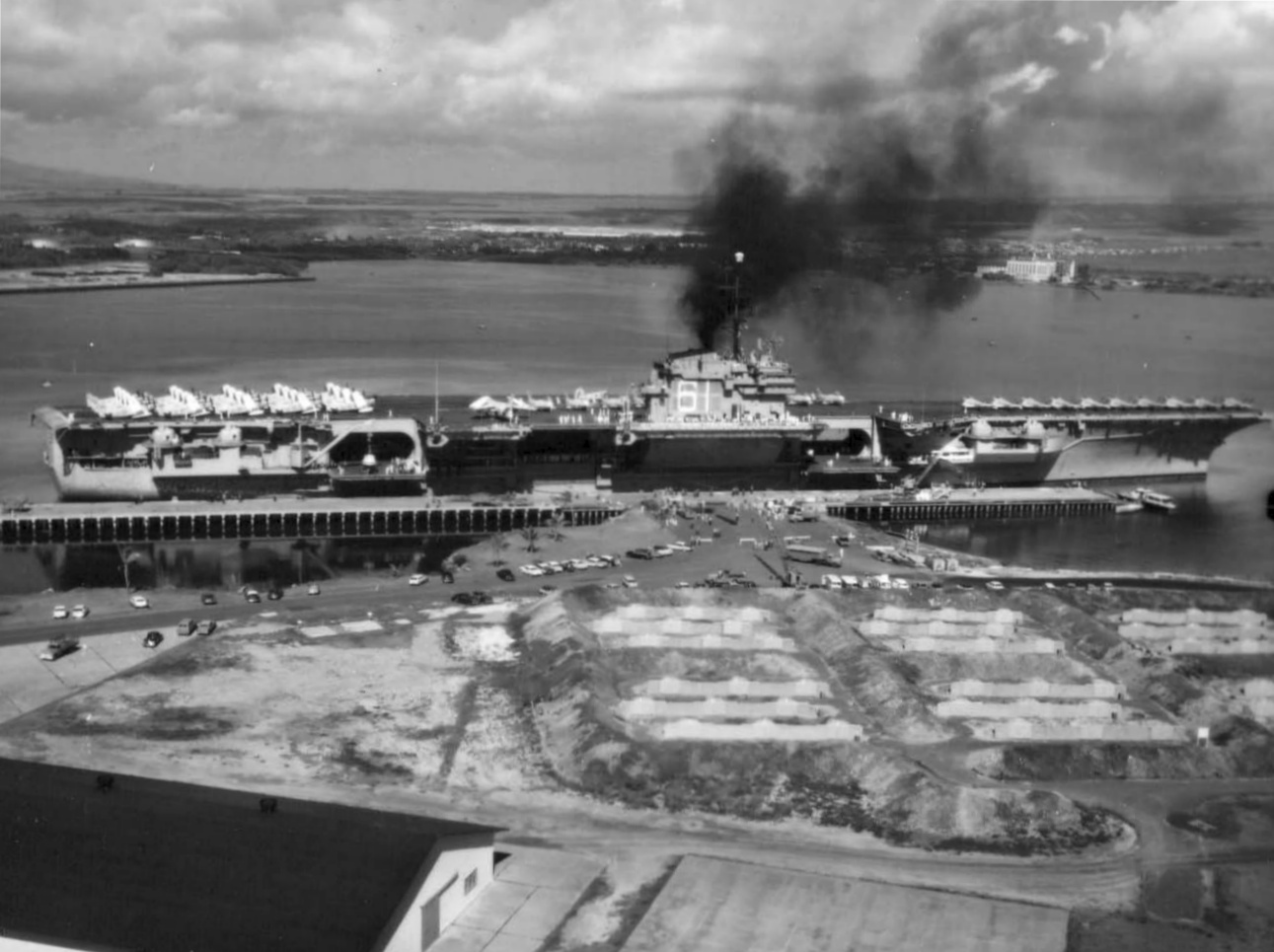 The U.S. Navy aircraft carrier USS Ranger (CVA-61) mooring at Pearl Harbor, Hawaii (USA). Ranger, with assigned Carrier Air Group 14 (CVG-14), was deployed to the Western Pacific from 3 January to 27 July 1959.